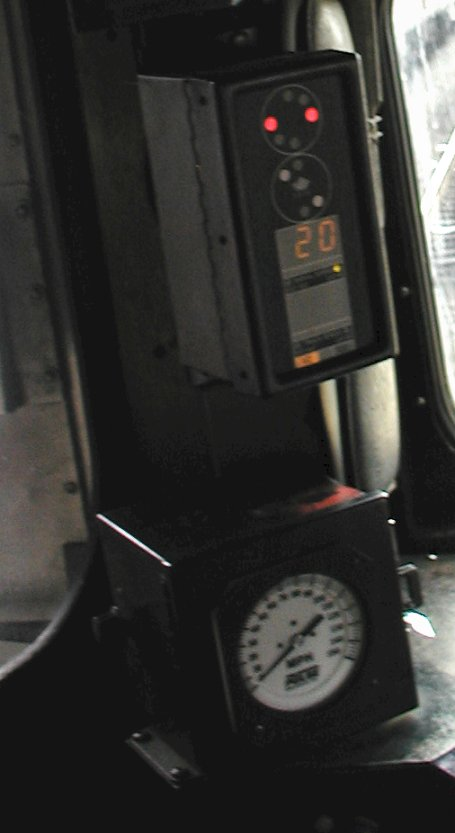 Amtrak ACSES-compliant cab signal display in a Metroliner cab car.